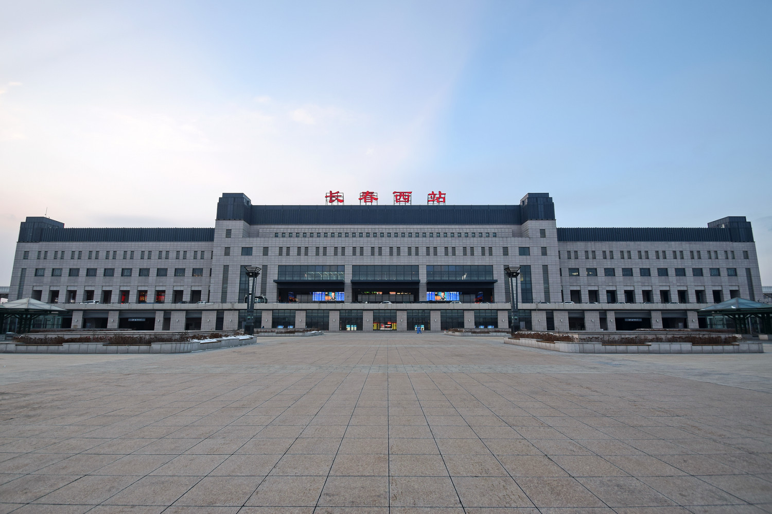 Changchun Xi (West) Railway Station, Harbin-Dalian High-Speed Railway